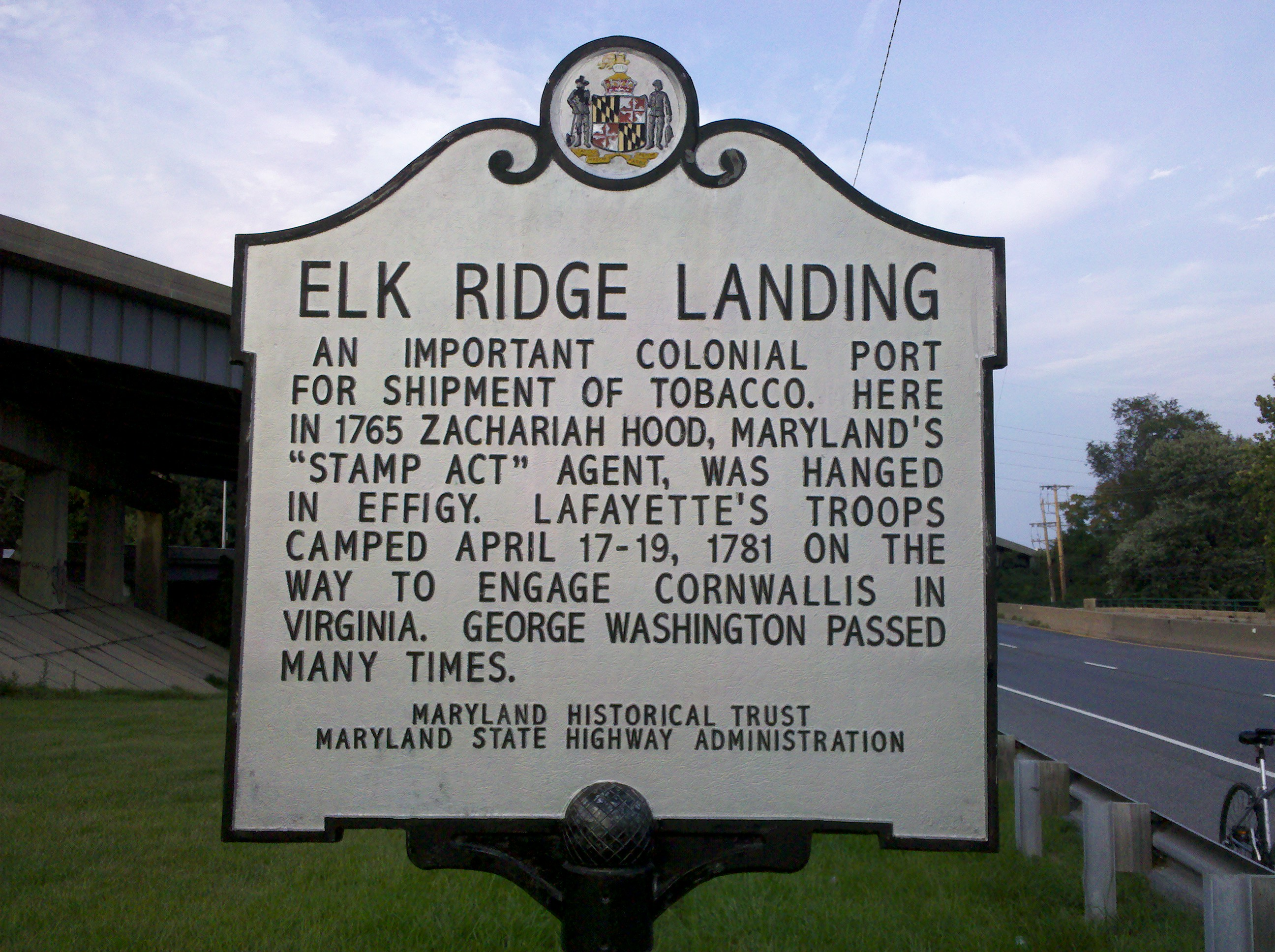 Historical maker commemorating Elk Ridge Landing, Elkridge, Howard County, MD. Marker is on U.S. Route 1 just before it crosses the Patapsco River.